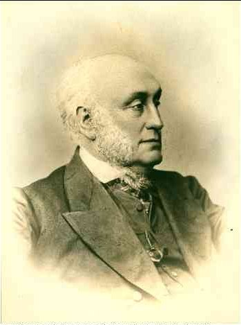 Judge Benjamin Boothby (5 February 1803 – 21 June 1868) Creator: Hammer & Co., photographer Subject: Boothby, Benjamin, 1803-1868 Image number: B 7017 Format: Photograph;, 19.7 cm x 14.8 cm Managed by: Item held by the State Library of South Australia Collection: Is part of the Mortlock Pictorial Collection Date or place: 1860